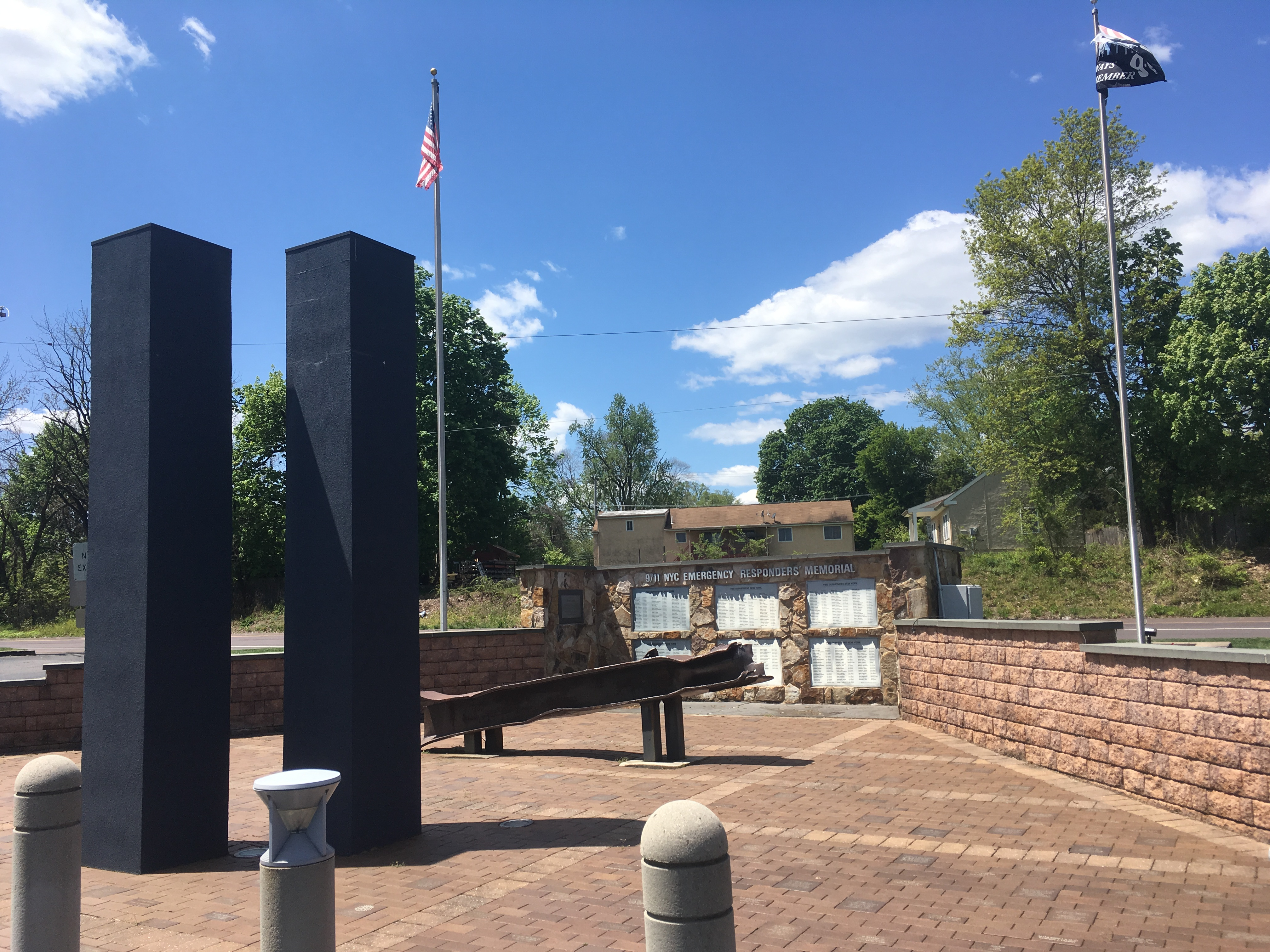 Memorial honoring fallen firefighters from New York City in the September 11 attacks, located at the Hartsville Fire Company in Hartsville, Pennsylvania.